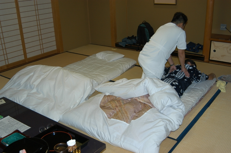 Futon mattresses on a tatami floor.